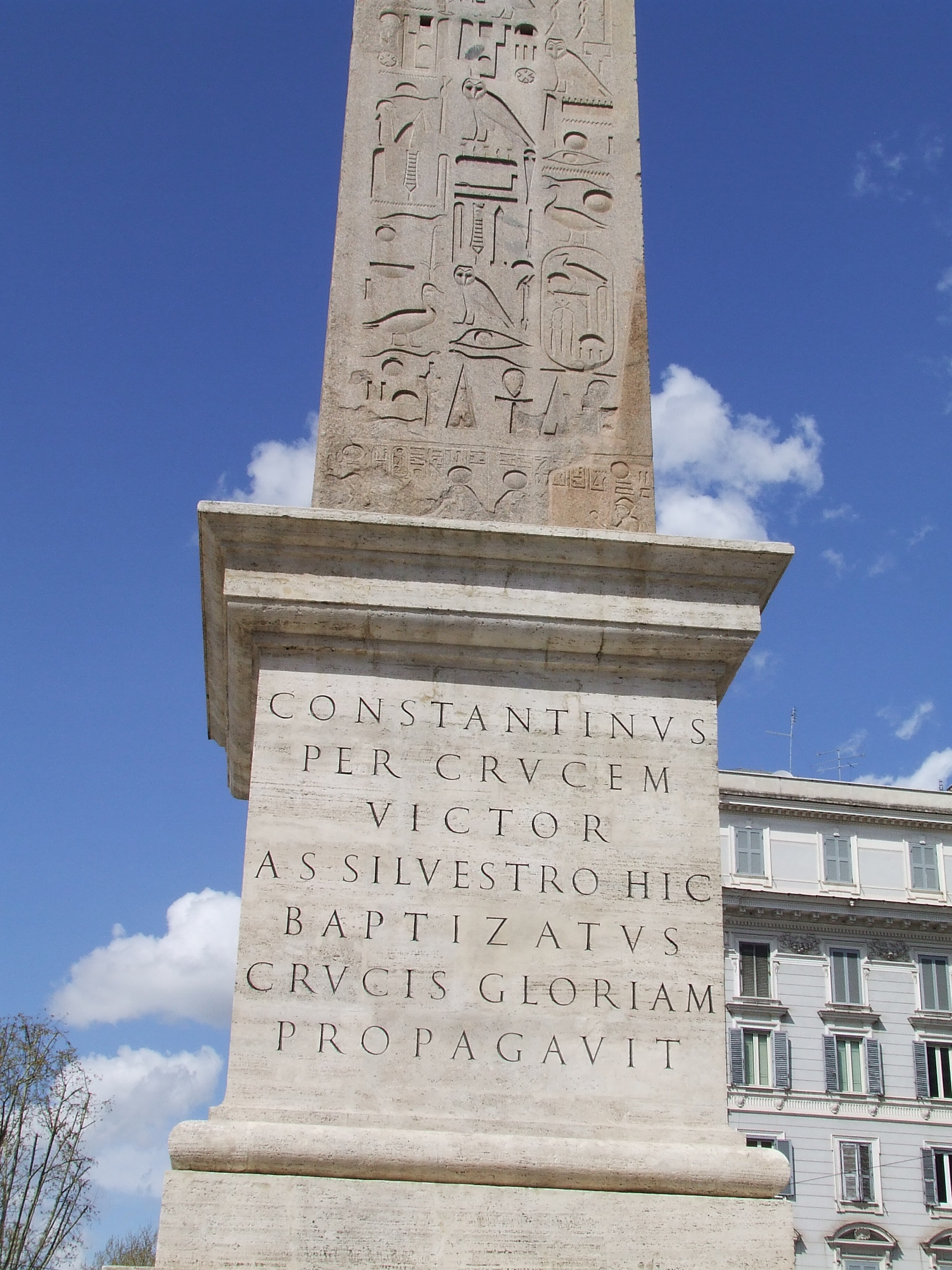 Lateran obelisk. Base of obelisk with citatation of Emperor Constantine.